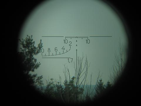 Romanian I.O.R. LPS 4x6° TIP2 4x24 rifle scope reticle. In the bottom-left corner is a stadiametric rangefinder that can be used to determine the distance from a 170 cm (1.7 m or 5 ft 7 in) tall person/object from 200 m (2) to 1000 m (10). This reticle layout is also used in several other telescopic sights used by other former Warsaw Pact member states.